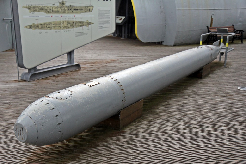 WWII acustic torpedo, Birkenhead. G7es T5 Zaunkönig I or its later version - model G7es T11 Zaunkönig. Note flat-nose that covers four hydrophones.